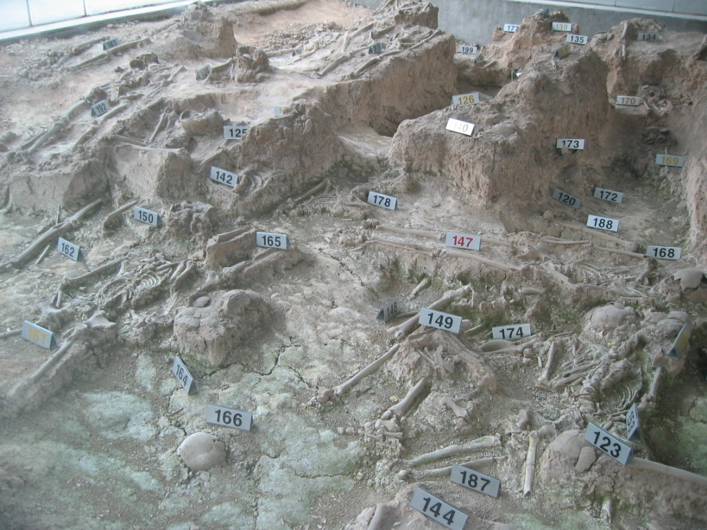 Piles of buried bones displayed at Nanjing Massacre Museum